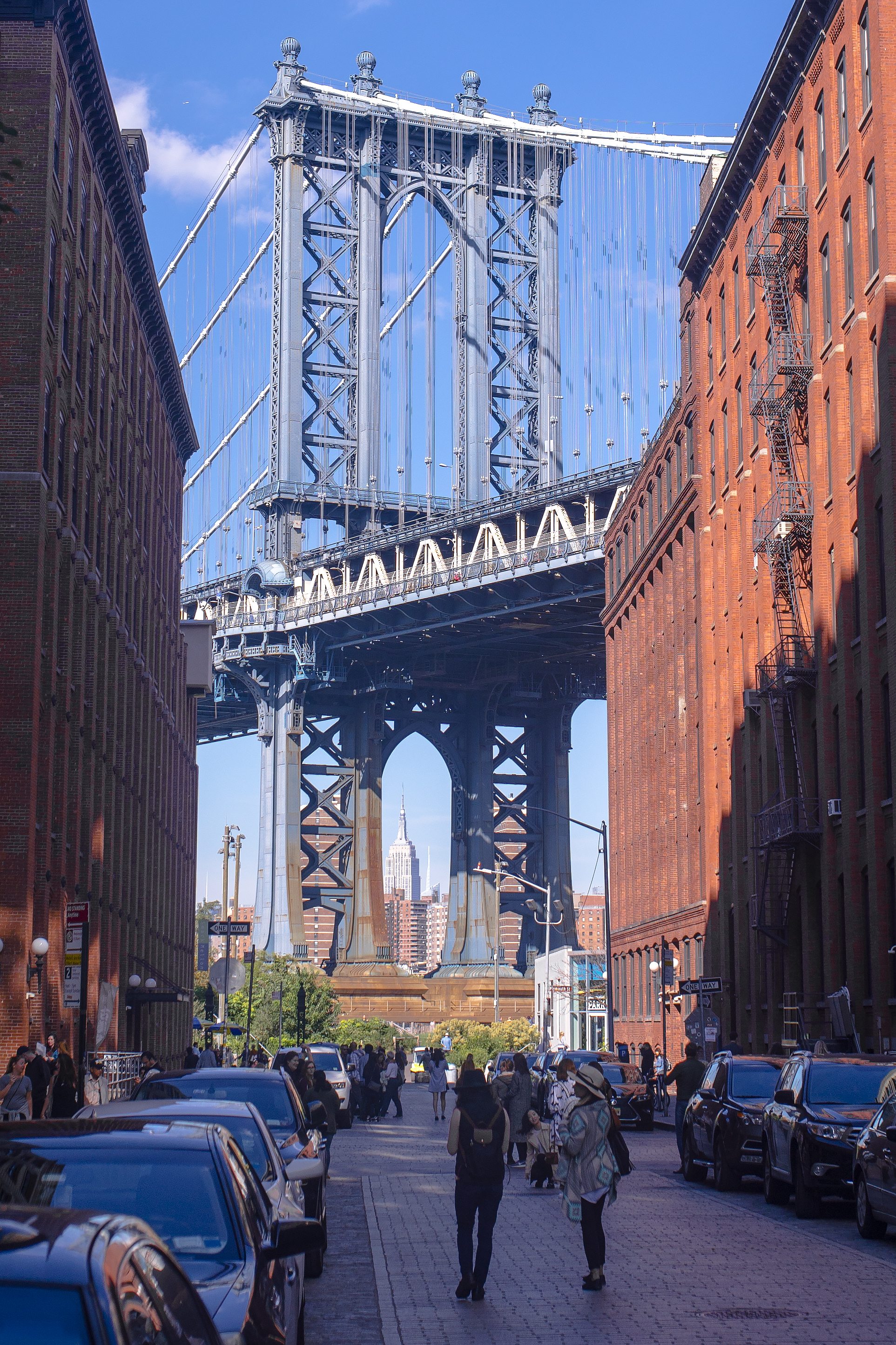 [Category: Exterior] A peek of Manhattan bridge on Dumbo. Site: Dumbo